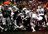 A football card from the 1986 Jeno's Pizza NFL football card stickers set of Buffalo Bills running back Joe Cribbs rushing the ball against the New York Jets in the 1981 AFC Wild Card Playoff Game on December 27, 1981. The card is numbered #30 in the set. The back of the card reads: BUFFALO WINS A "WILD" WILD CARD GAME Buffalo's Joe Cribbs breaks free behind good blocking, as the Bills win their first playoff game in 16 years, beating the New York Jets 31-27 in 1981. The Bills jumped off to a 24-0 lead in the AFC WIld Card Game, but needed a goal-line interception by Bill Simpson in the last seconds to preserve the victory.